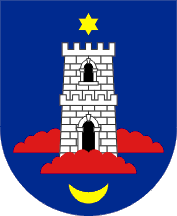 Coat of Arms of Imotski (Croatia)